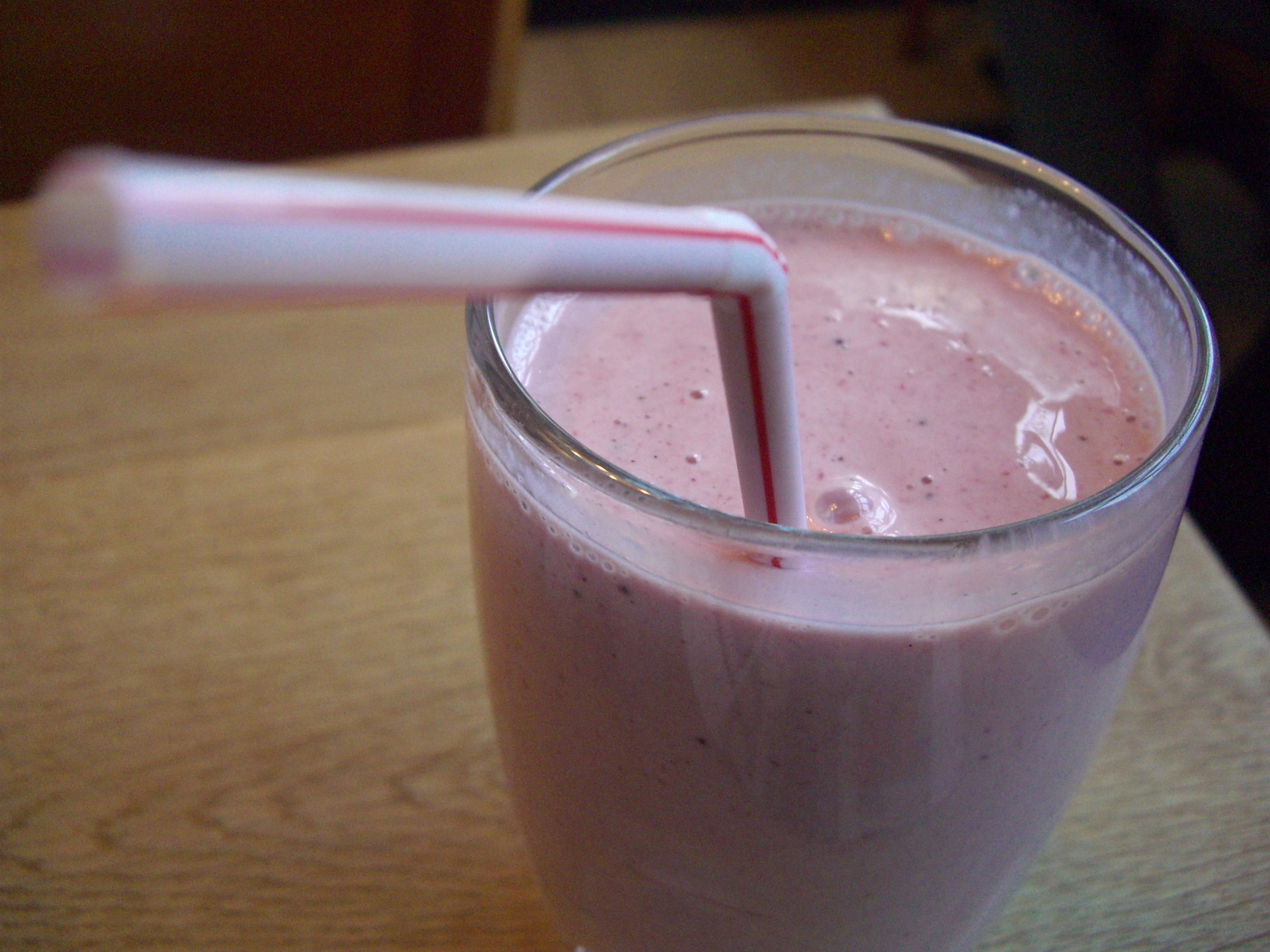 7th of December 2006